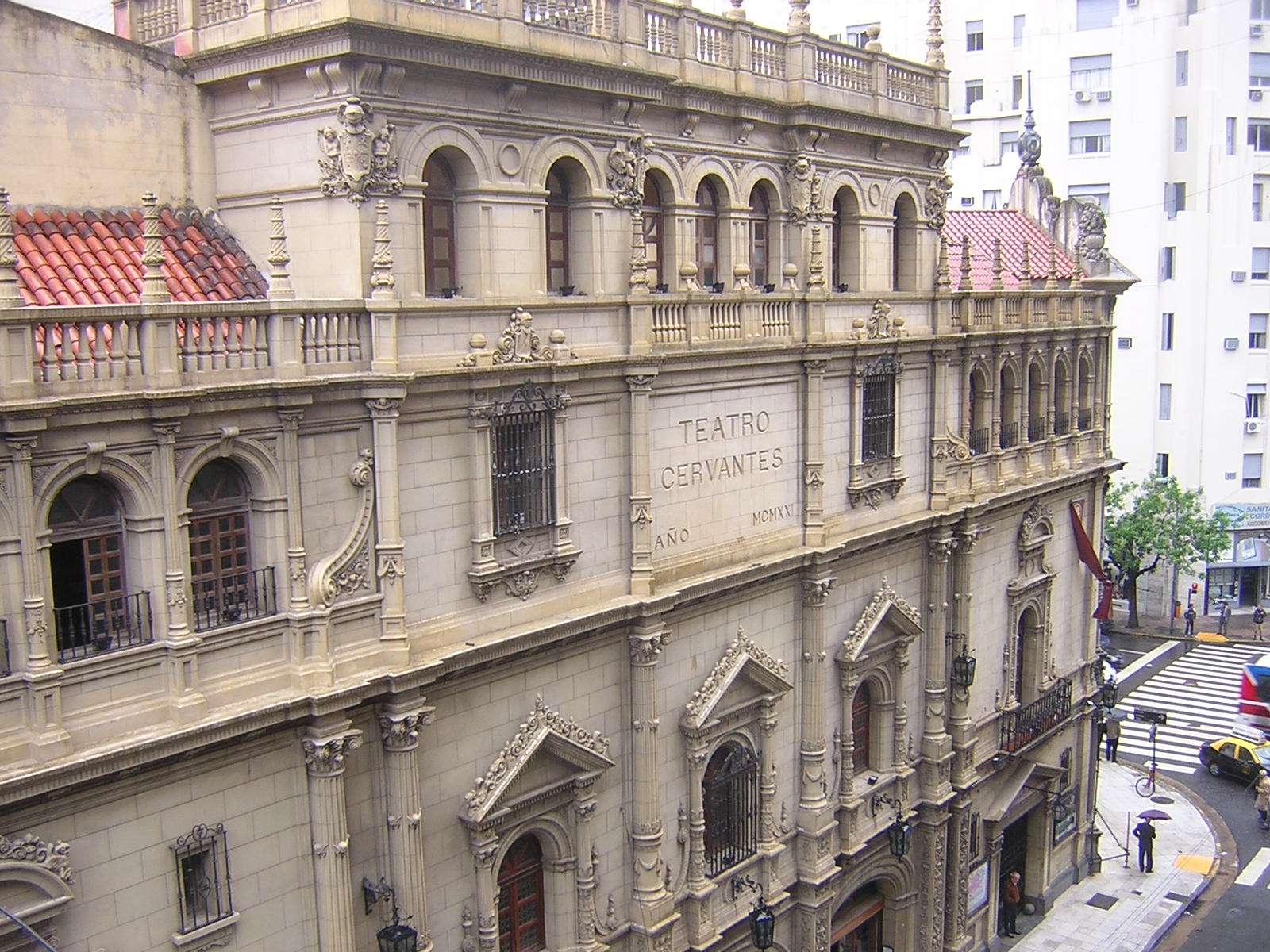 The Cervantes Theater in the Tribunales theater district of Buenos Aires, Argentina.